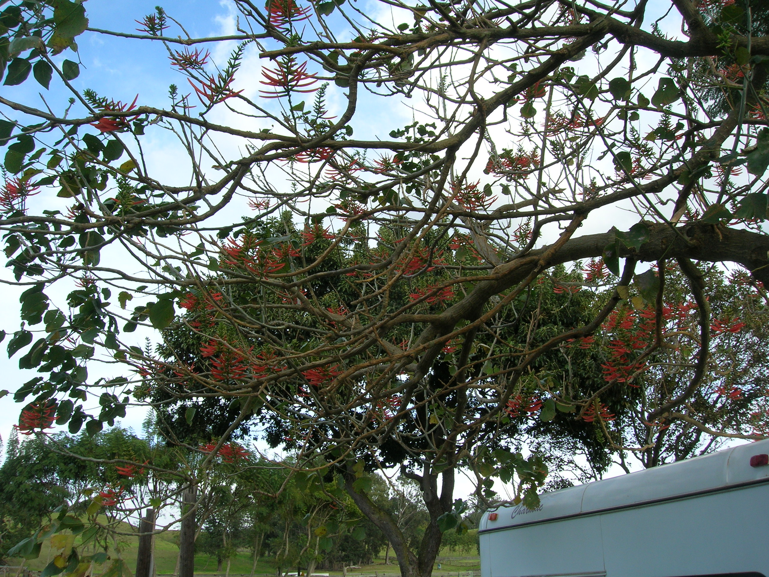 Erythrina berteroana (flowers). Location: Maui, Makawao